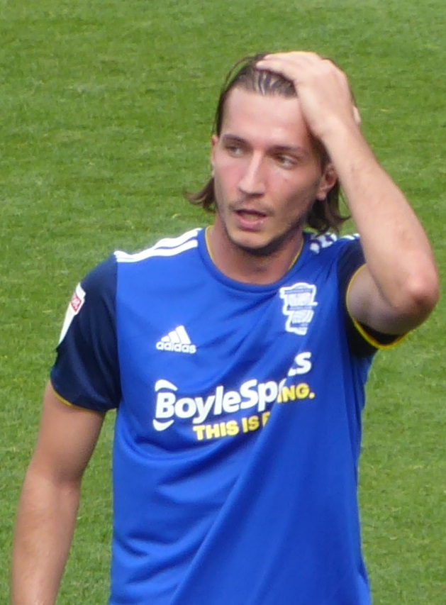 Ivan Šunjić making his Birmingham City and English Football League debut during the EFL Championship match against Brentford at Griffin Park on 3 August 2019